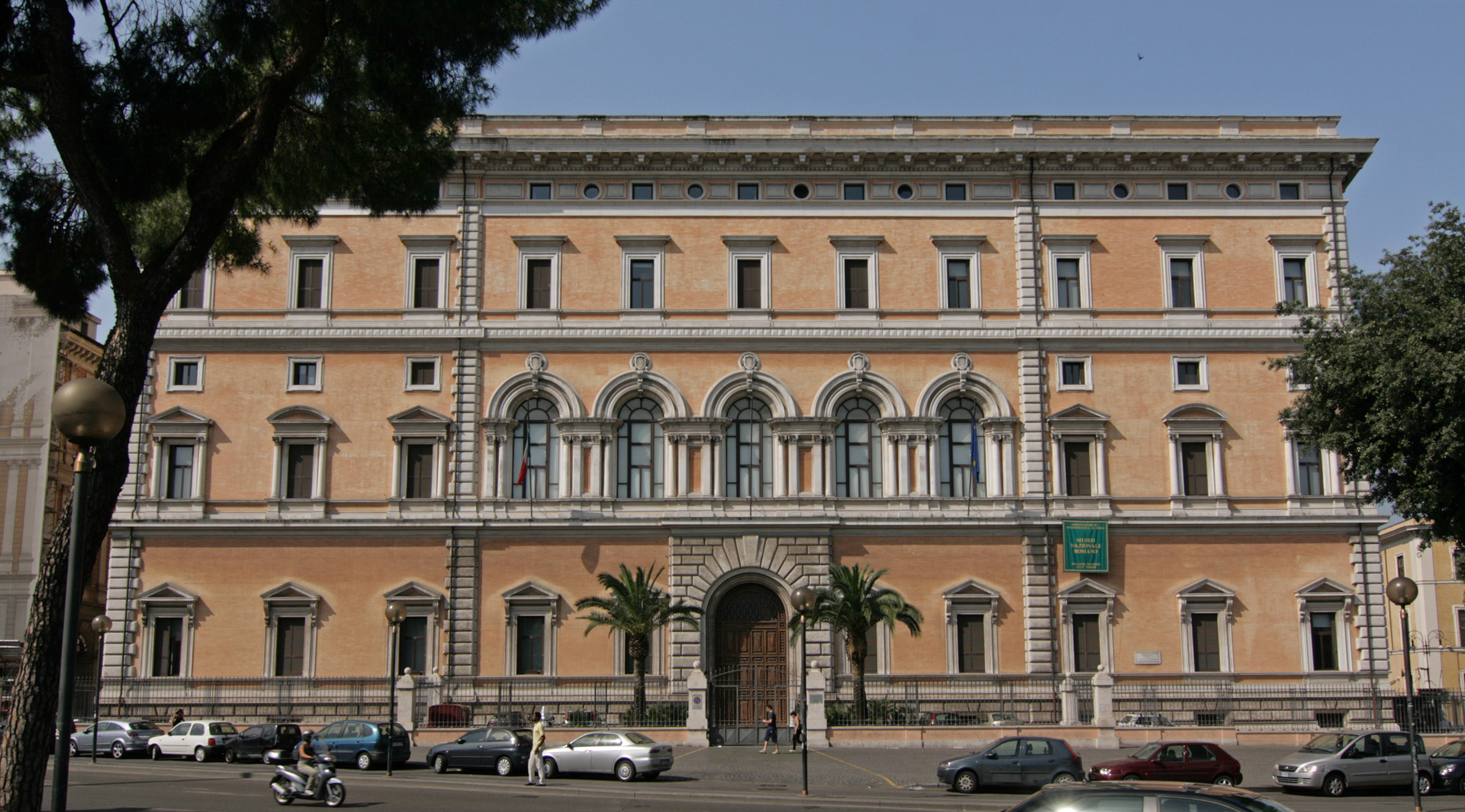 Museo Nazionale Romano at Palazzo Massimo alle Terme, Rome. Seen from Piazza dei Cinquecento.